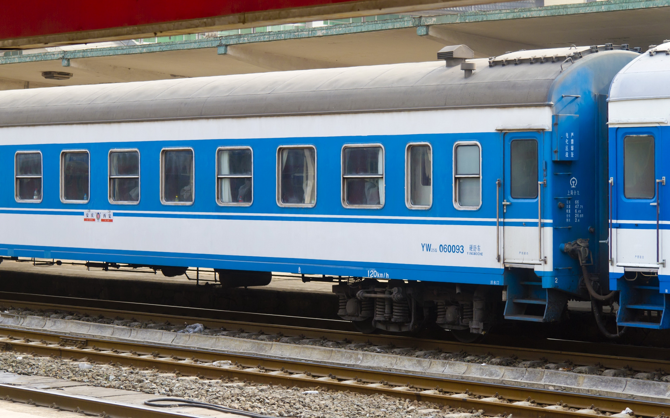 Special Decoration of China Railway 25G coaches